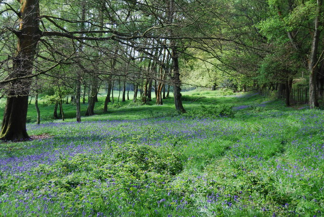 Bluebells, St Leonards Forest